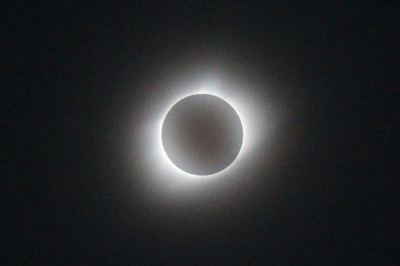 Total solar eclipse 2017 as seen from Columbia, MO